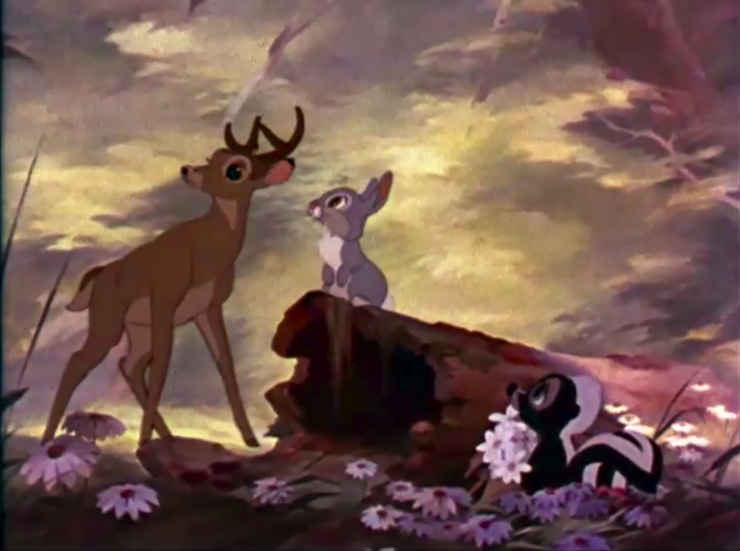 Screenshot of Bambi, Thumper and Flower from the theatrical trailer for the film Bambi. Noise reduction with waifu2x.